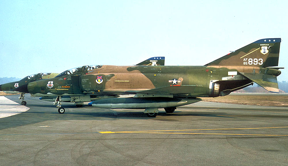 106th Tactical Reconnaissance Squadron RF-4C Phantom II aircraft at Ramstein AB, West Germany, March 1976. Aircraft were participating in "Operation Coronet Sprint". McDonnell RF-4C-26-MC Phantom 65-0893 visible in foreground. 893 was retired to AMARC as FP0815 Feb 5, 1992. Still on AMARC inventory Jan 15, 2008.